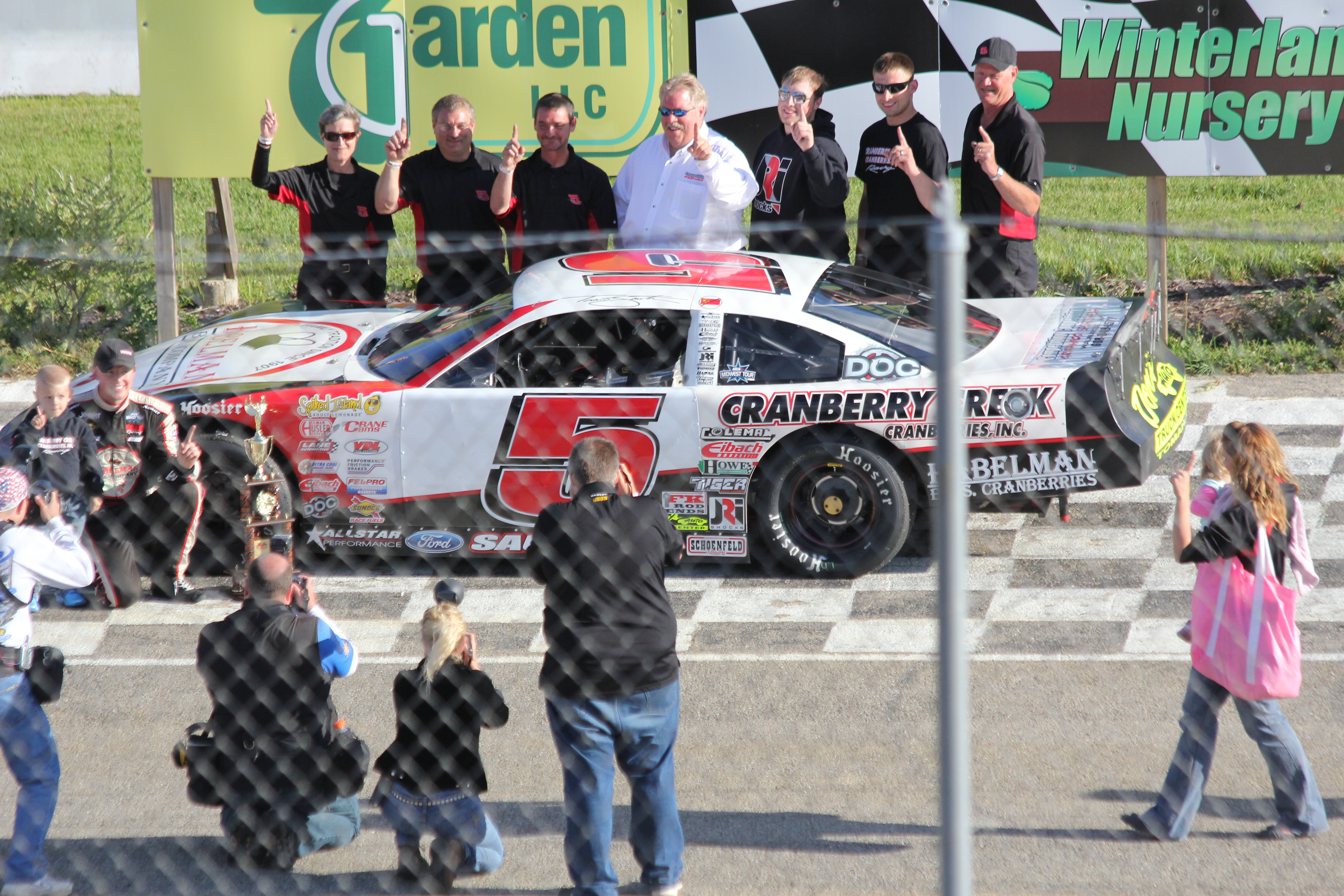 Photographers photographing ARCA and NASCAR driver Travis Sauter along with his pit crew after winning a local super late model stock car race at Madison International Raceway.